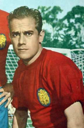 Luis Suárez, former player of Barcelona, Il Grande Inter and Spain national team